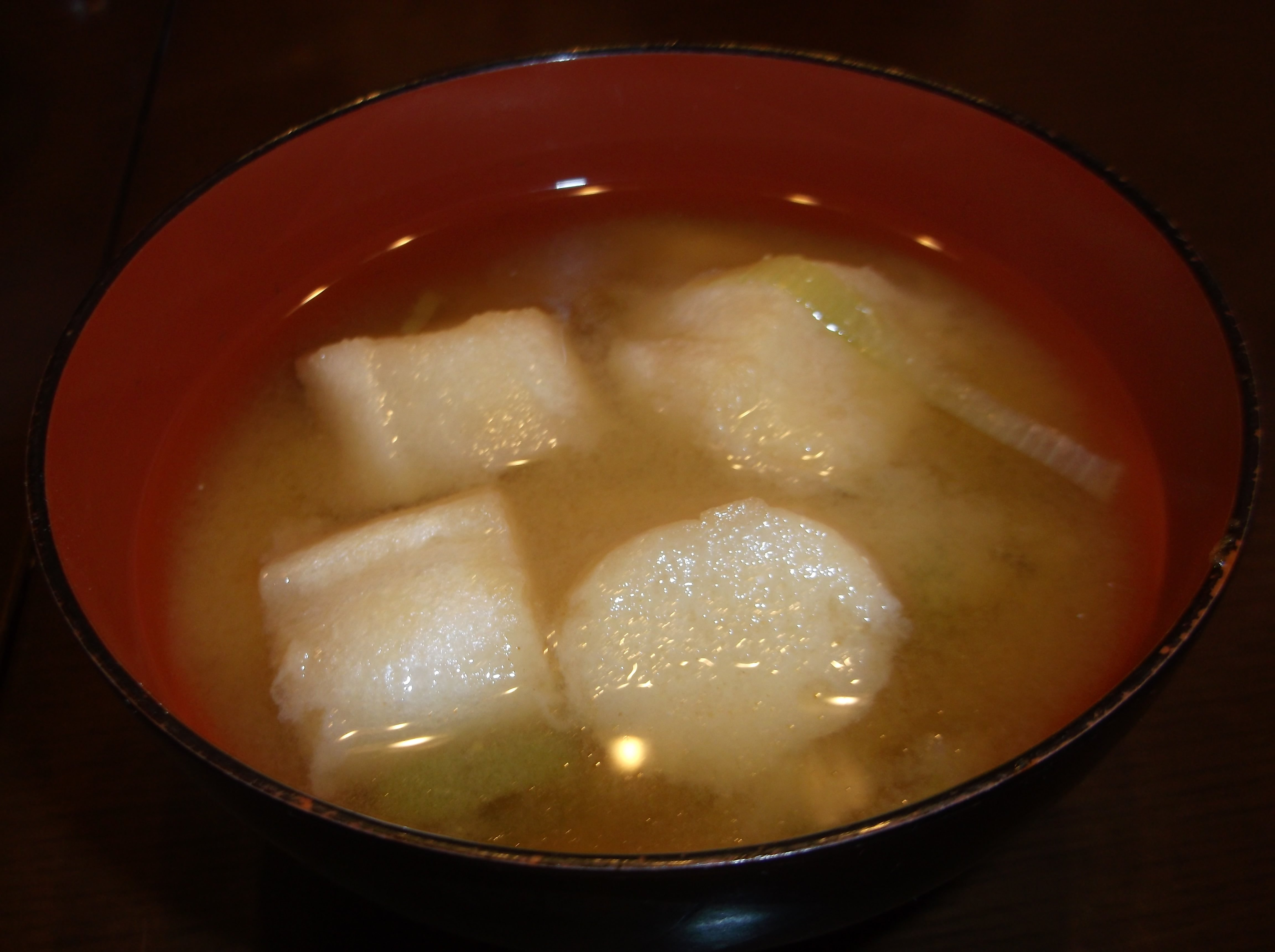 A photo of miso soup of "ofu"(Wheat gluten in Japanese).